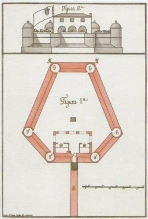 Drawing of Monte Serrat Fortress in Salvador, Bahia (c. 1759) by military engineer José Antônio Caldas